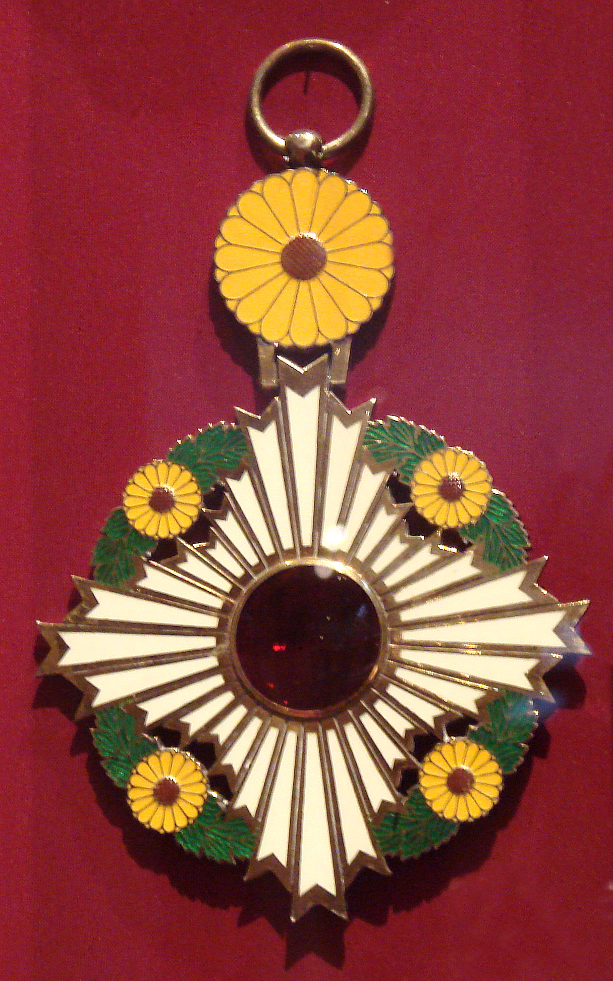 Order_of_the_Chrysanthemum_of Victor Emmanuel III of Italy.